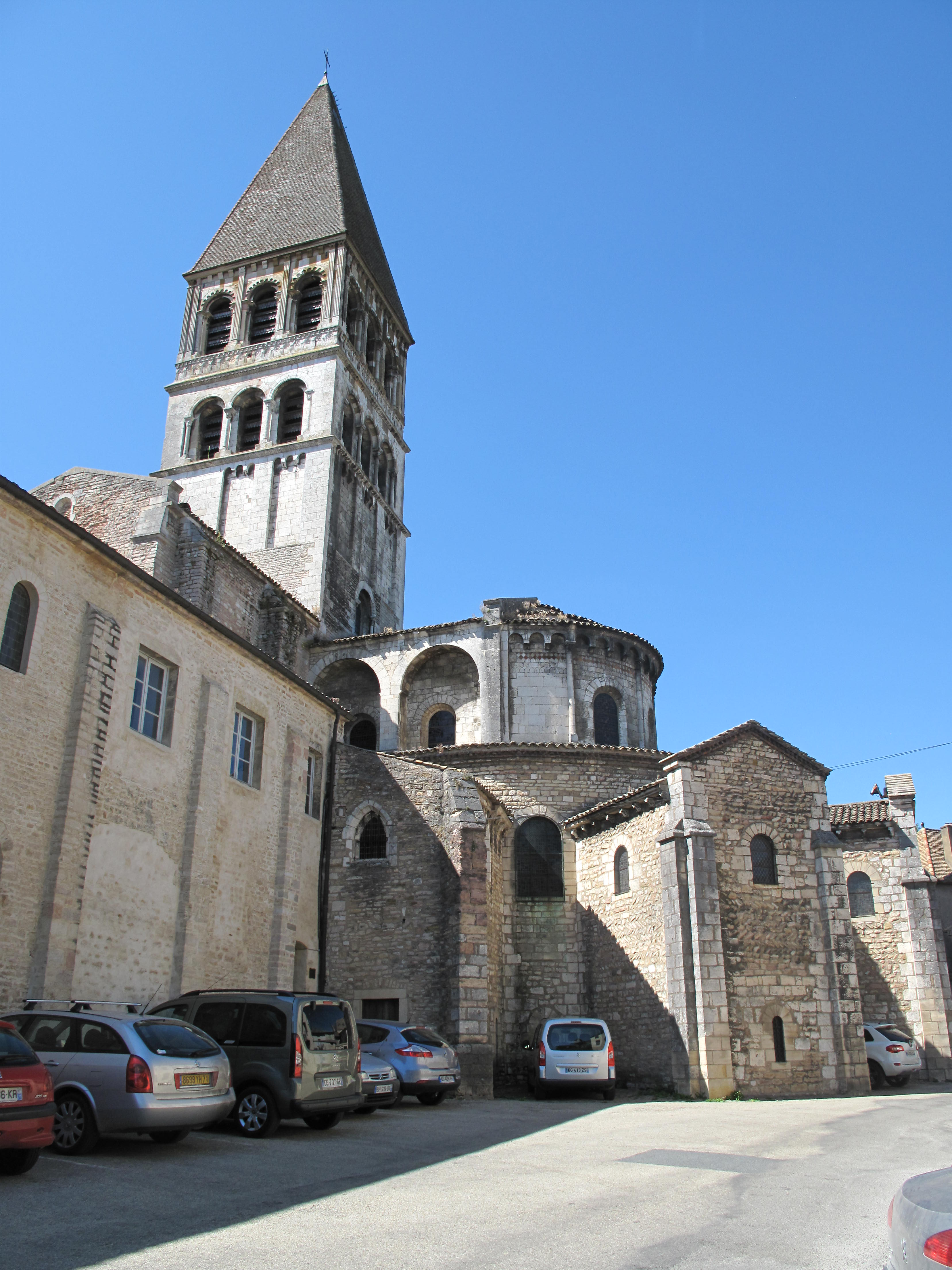 Apse of the Saint-Philibert abbey in Tournus (Saône-et-Loire, France).